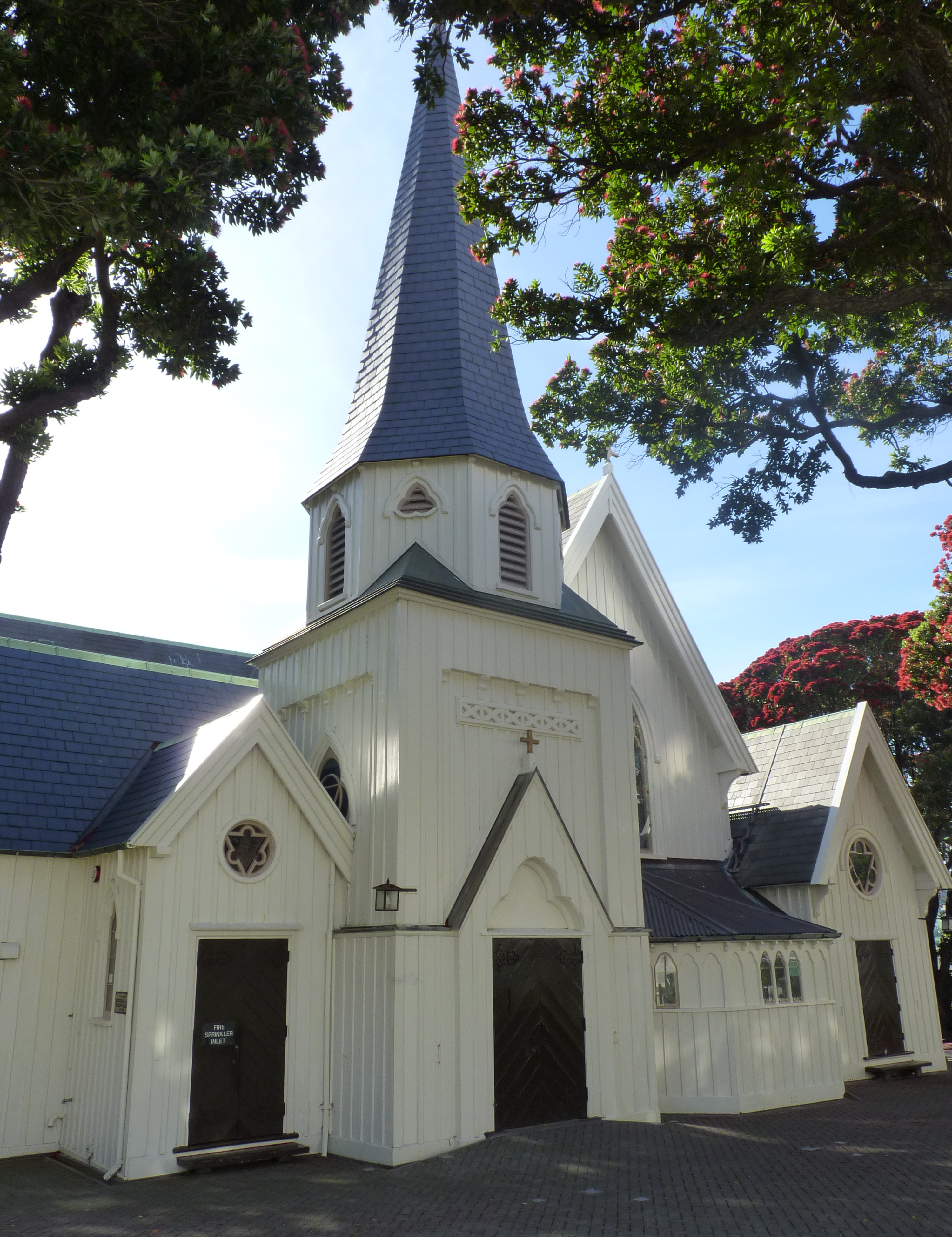 Old Saint Pauls. Wellington, New Zealand